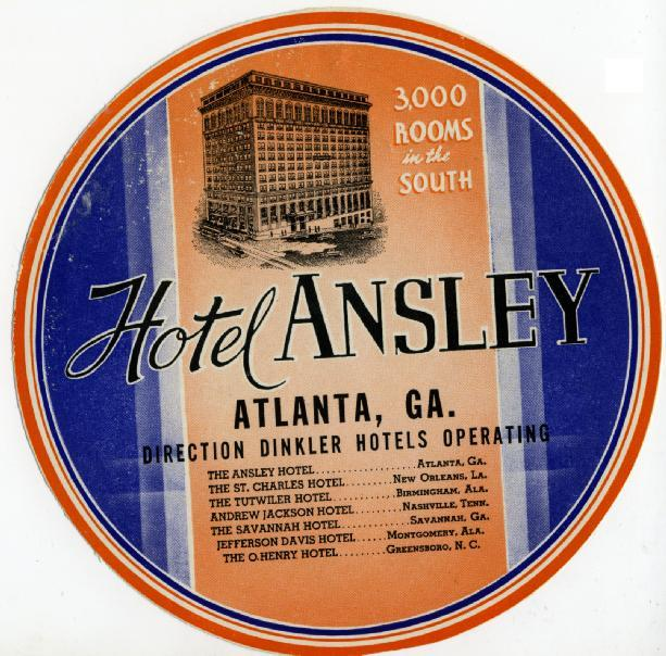 Hotel Ansley Luggage Sticker